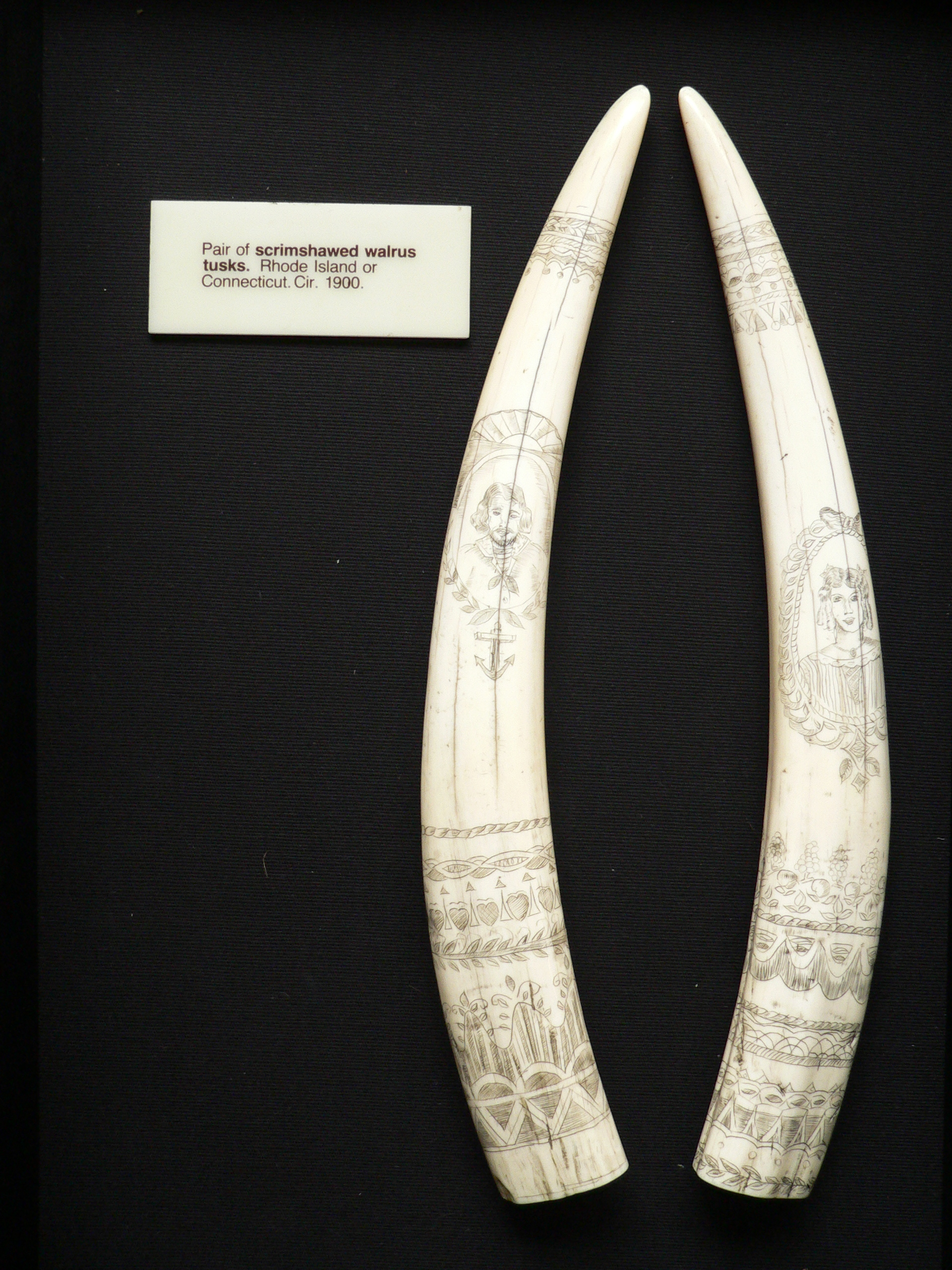 Scrimshaw (pair of Walrus Tusks) created circa 1900.